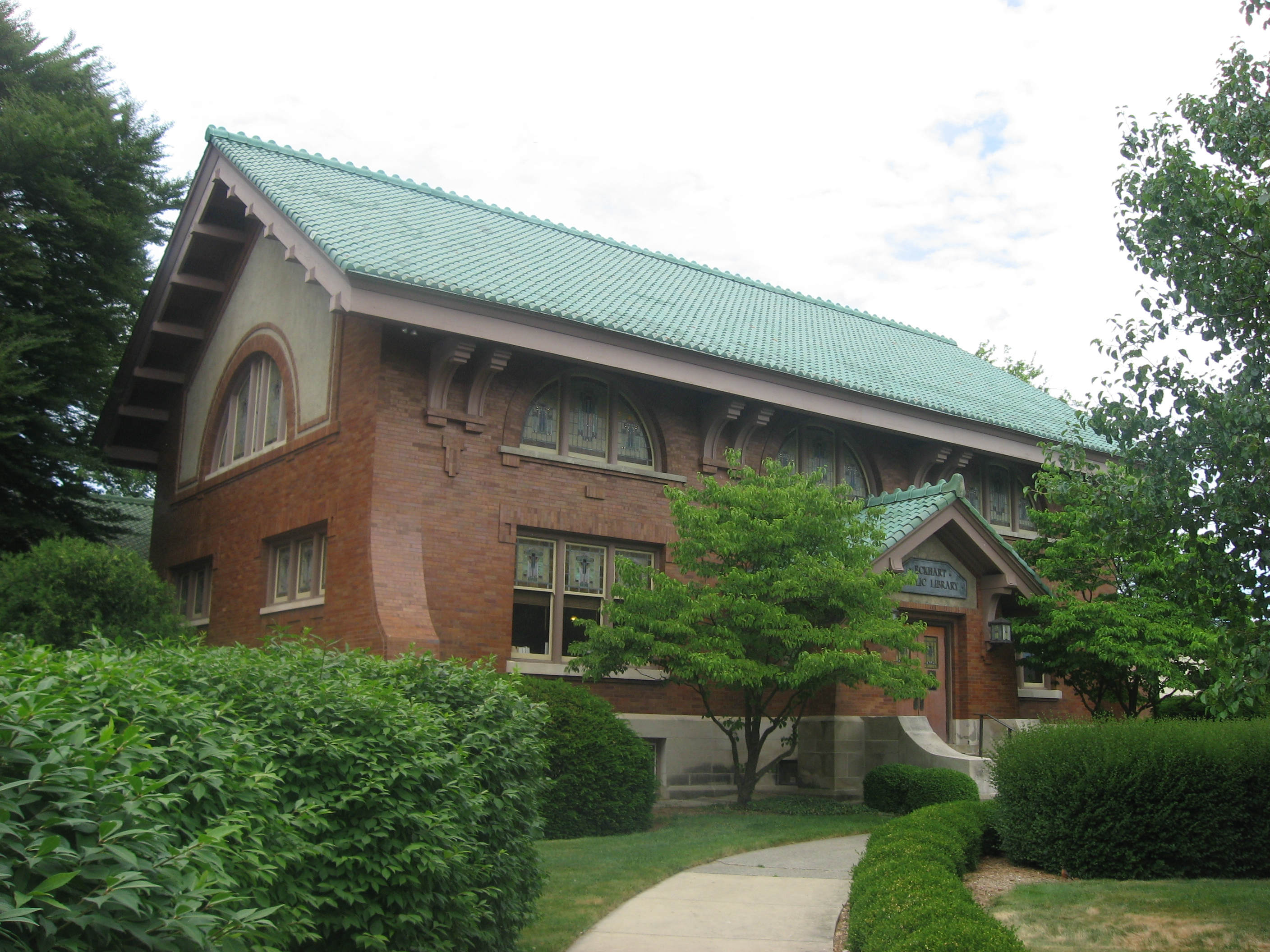 Front and southern side of the Eckhart Public Library, located at 603 S. Jackson Street in Auburn, Indiana, United States. Built in 1911, it is listed on the National Register of Historic Places.